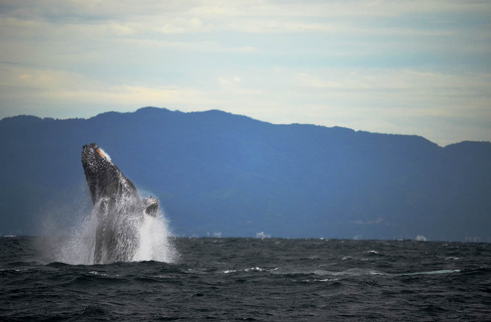 Megattera nell'oceano Pacifico. La balena è saltando e nuotando vicino alle Isole Marietas. Dicembre 27, 2014. Puerto Vallarta, Jalisco.